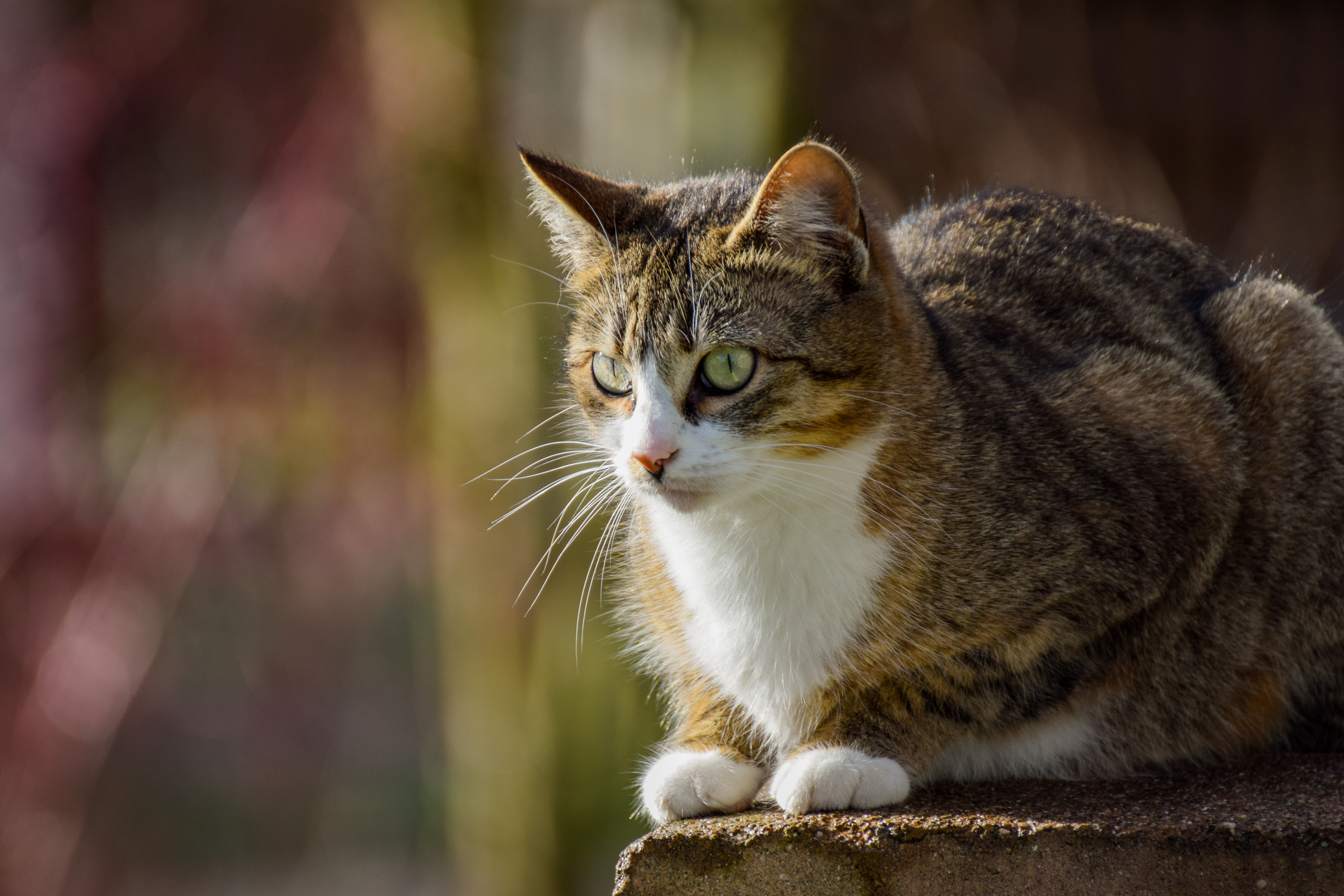 Cat on the lookout